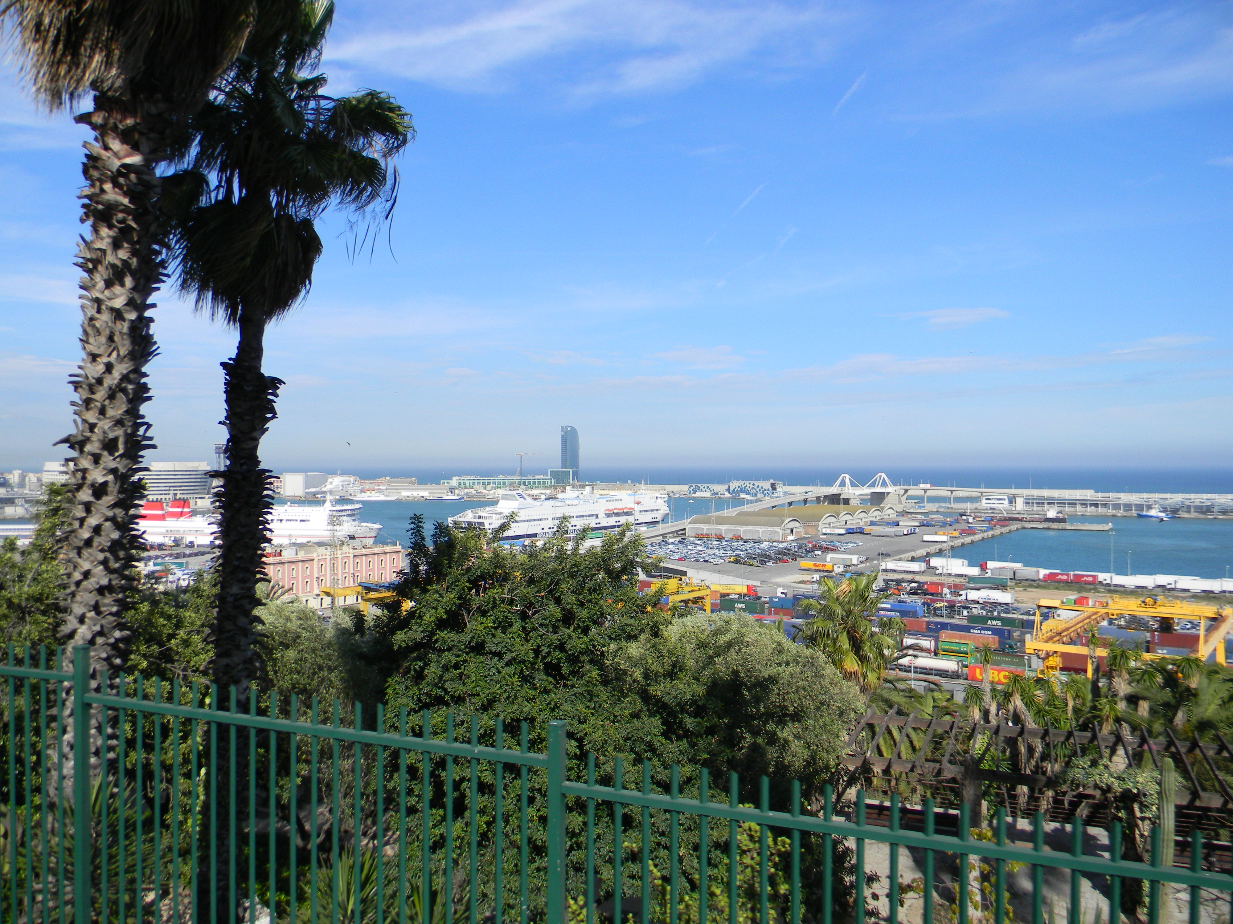 Views of Barcelona, Spain